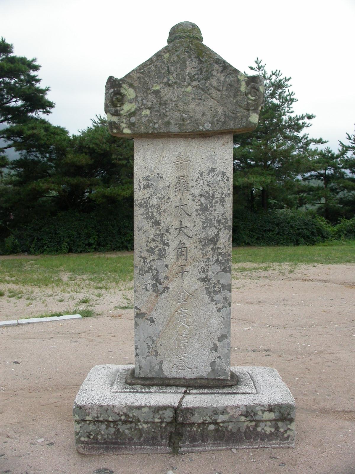 Tomb of General Kim Yusin